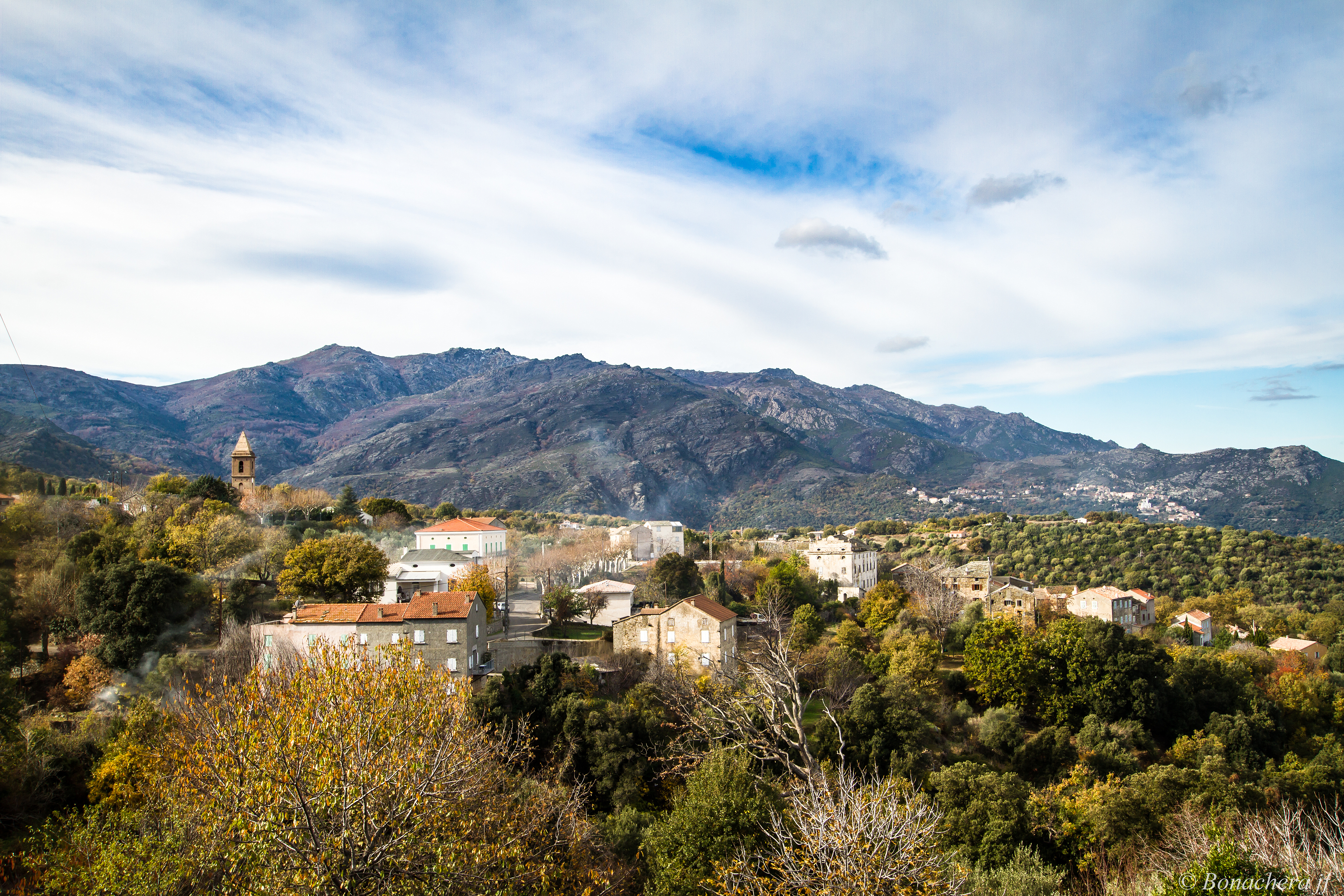 Rapale